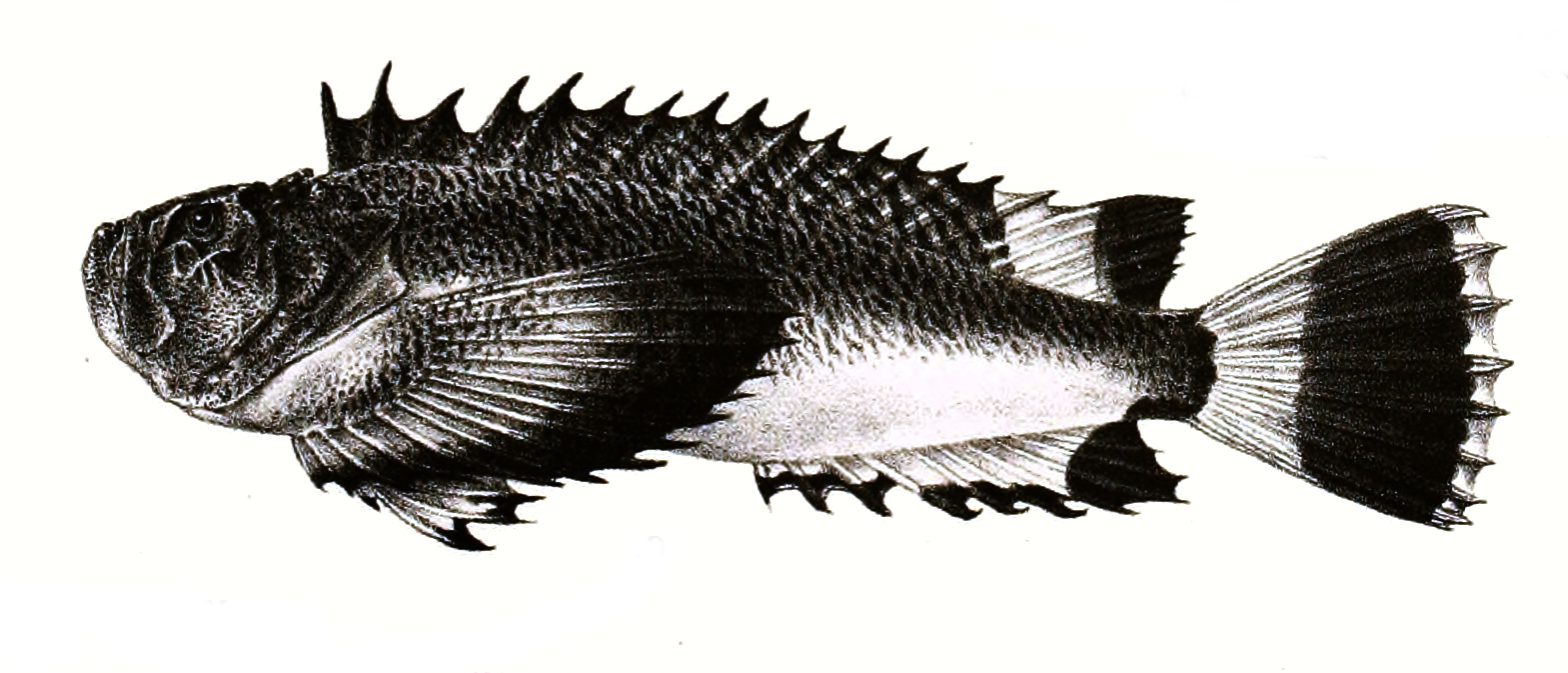 The species names / identity need verification. The original plates showed the fishes facing right and have been flipped here. Pseudosynanceia melanostigma